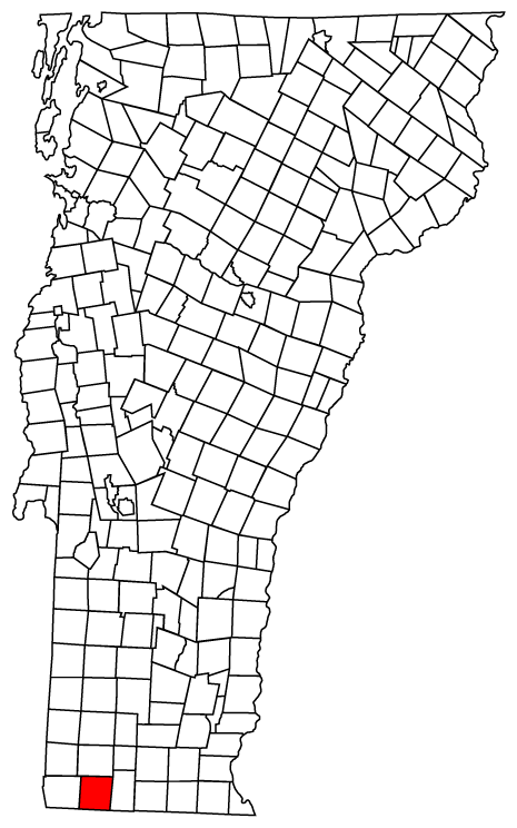 Description: Map of Vermont towns with Stamford highlighted Source: Map created by Jared C. Benedict on 26 March 2004. Copyright: © Jared C. Benedict.